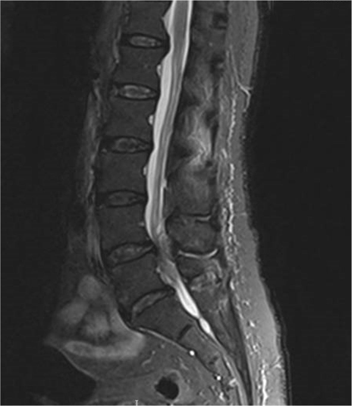 MRI of the lumbar spine of a A 57-year-old woman: The collection in the posterior epidural space and the posterior disc bulge is seen compressing the thecal sac and the cauda equina